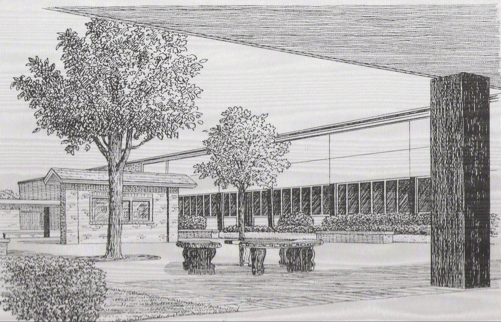 William M. Raines Original Courtyard